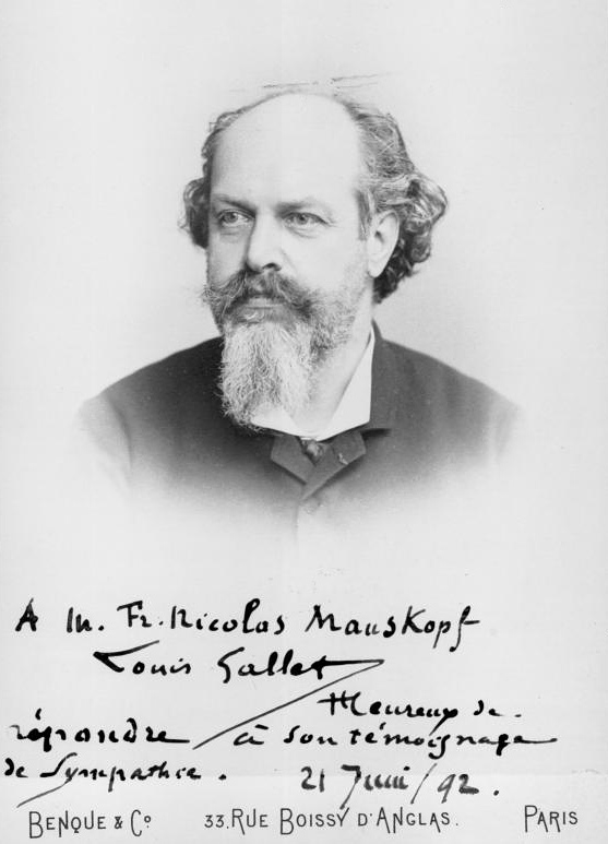 French writer, playwright and librettist Louis Gallet (1835-1898), the portrait signed for Friedrich Nicolas Manskopf